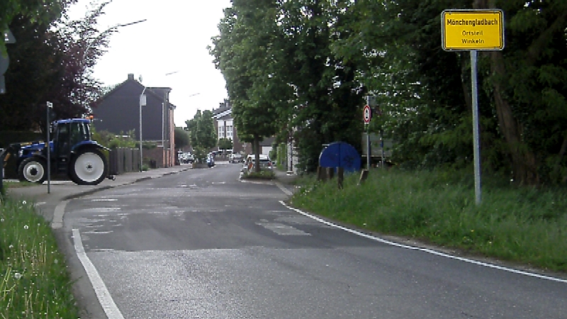 Winkeln western city limit, Mönchengladbach, Germany.